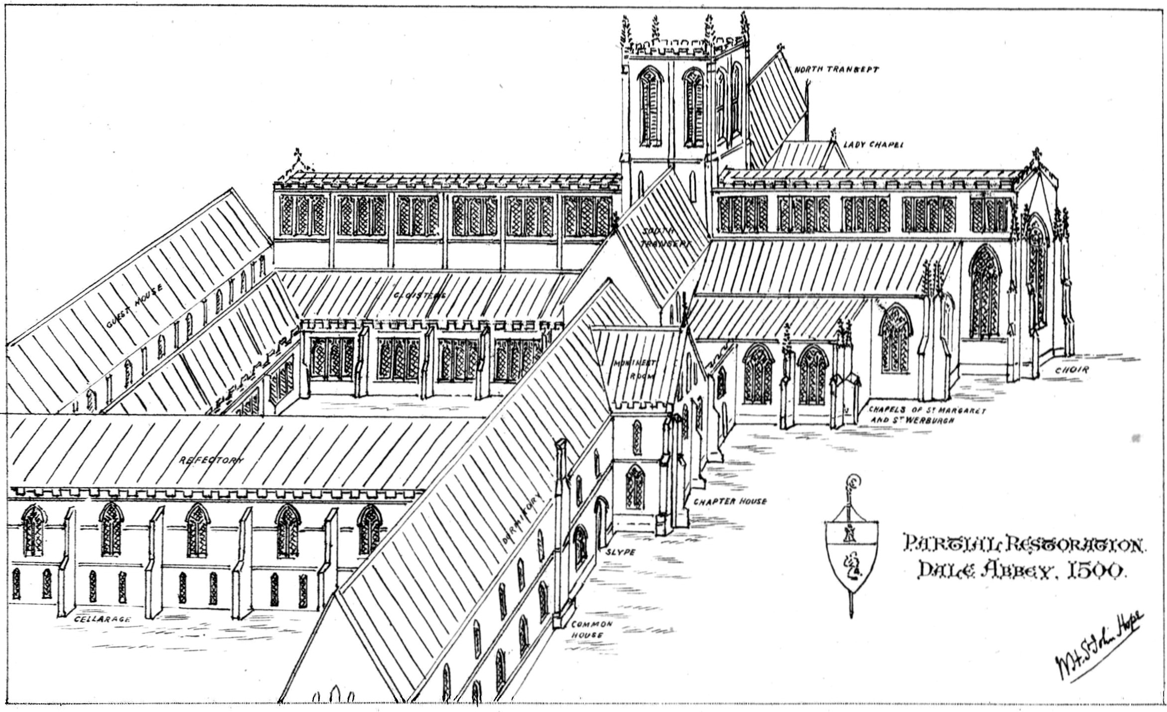 A sketch giving an impression of Dale Abbey, Derbyshire, as it might have been in 1500. Published in 1880 by William St John Hope, who led the first archaeological investigation of the site in 1878 on behalf of the Derbyshire Archaeological and Natural History Society.